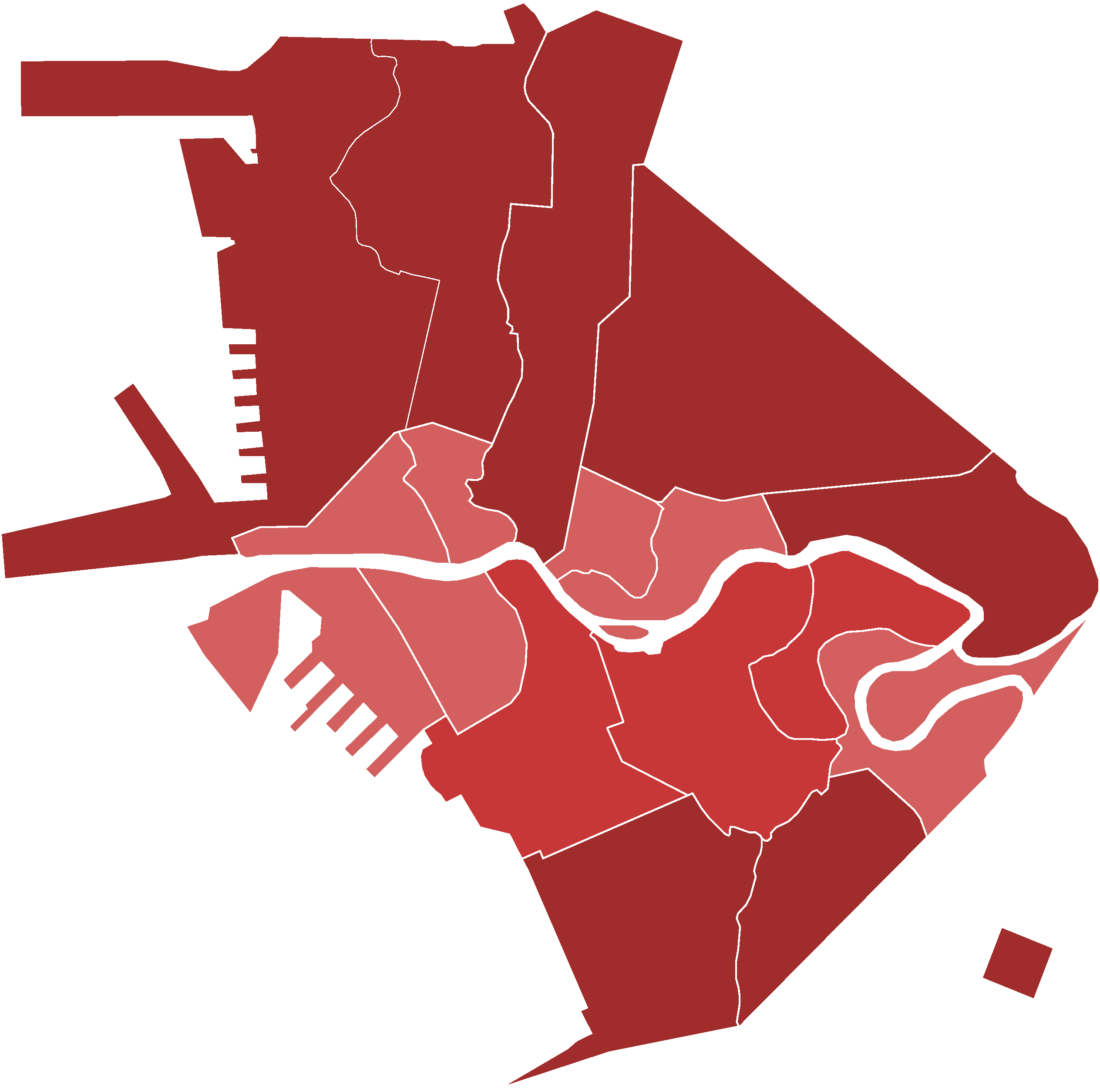 English (en): Map of the coronavirus pandemic in Quezon City as of 27 May 2020 by city. Be aware that since this is a rapidly evolving situation, new cases may not be immediately represented visually. Refer to the primary article 2019–20 coronavirus pandemic in Metro Manila, the Manila Public Information Office situation reports, or the Philippine Department of Health reports for most recent reported case information. Confirmed 1~9 Confirmed 10~99 Confirmed 100~499 Confirmed 500~999